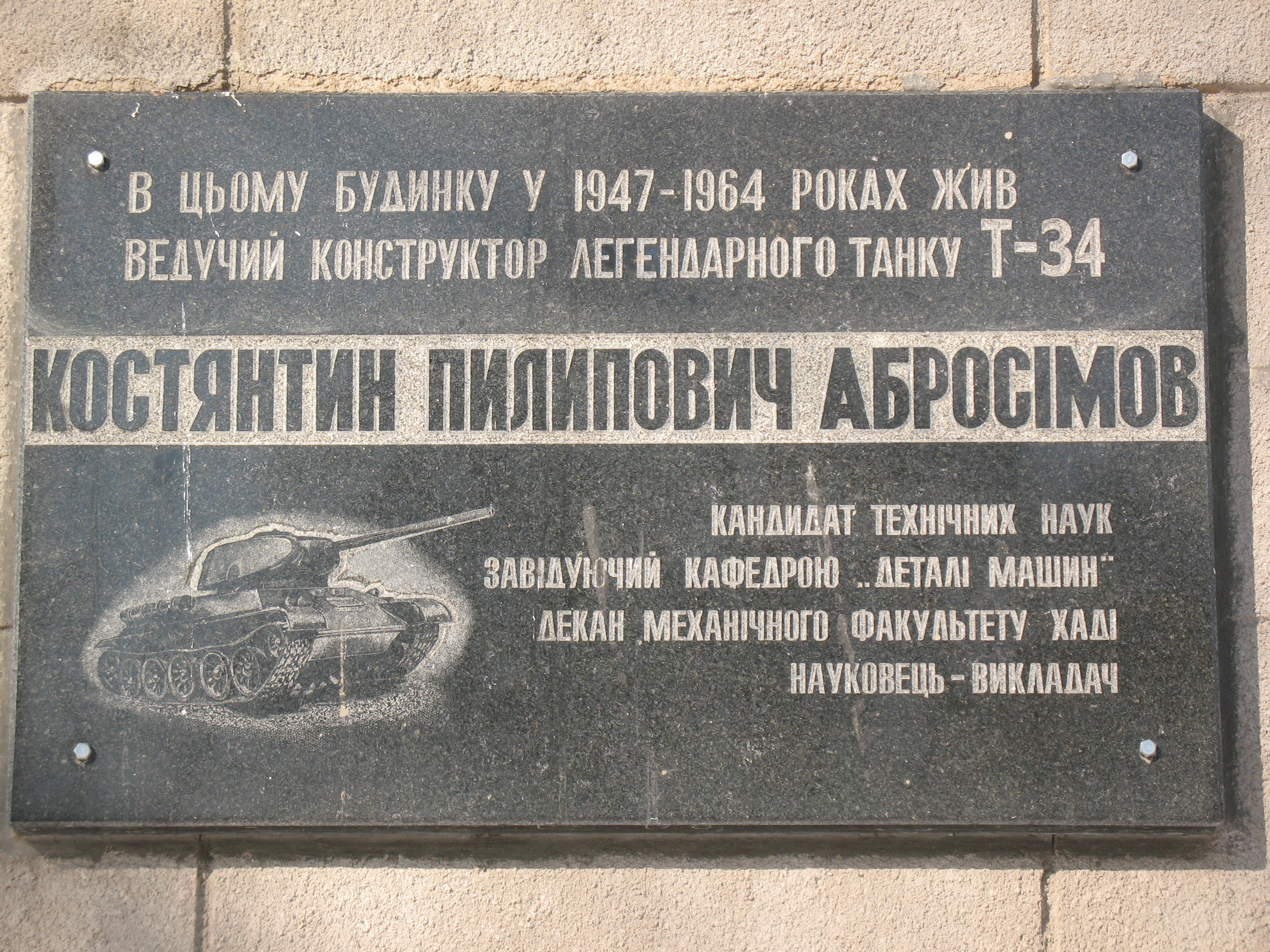 Kharkov Сity. Artema 37. T-34 tablet